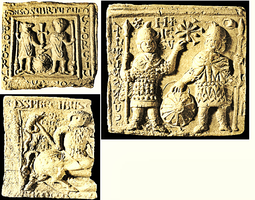 Vinitza teracota icons FYROM